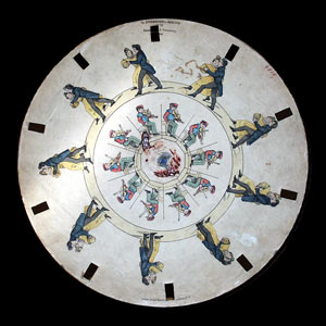 Example Simon Stampfer's "Stroboskopische Sheiben" , ("Stroboscopic discs") an early form of moving image.